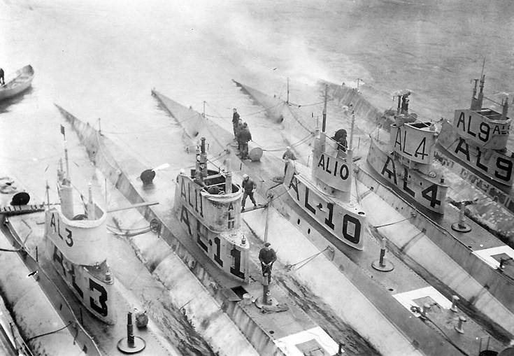 NH-60252 L-class submarines in British water, 1918 (cropped)